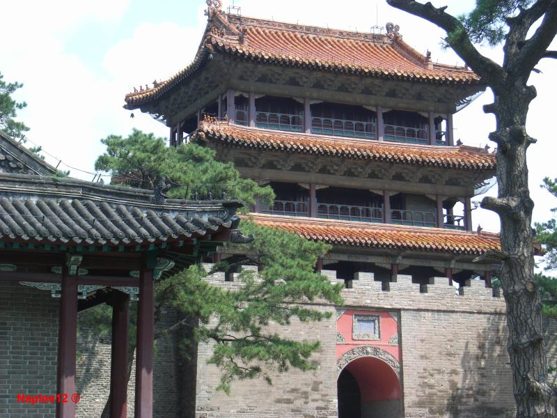 Long En Gate Fuling